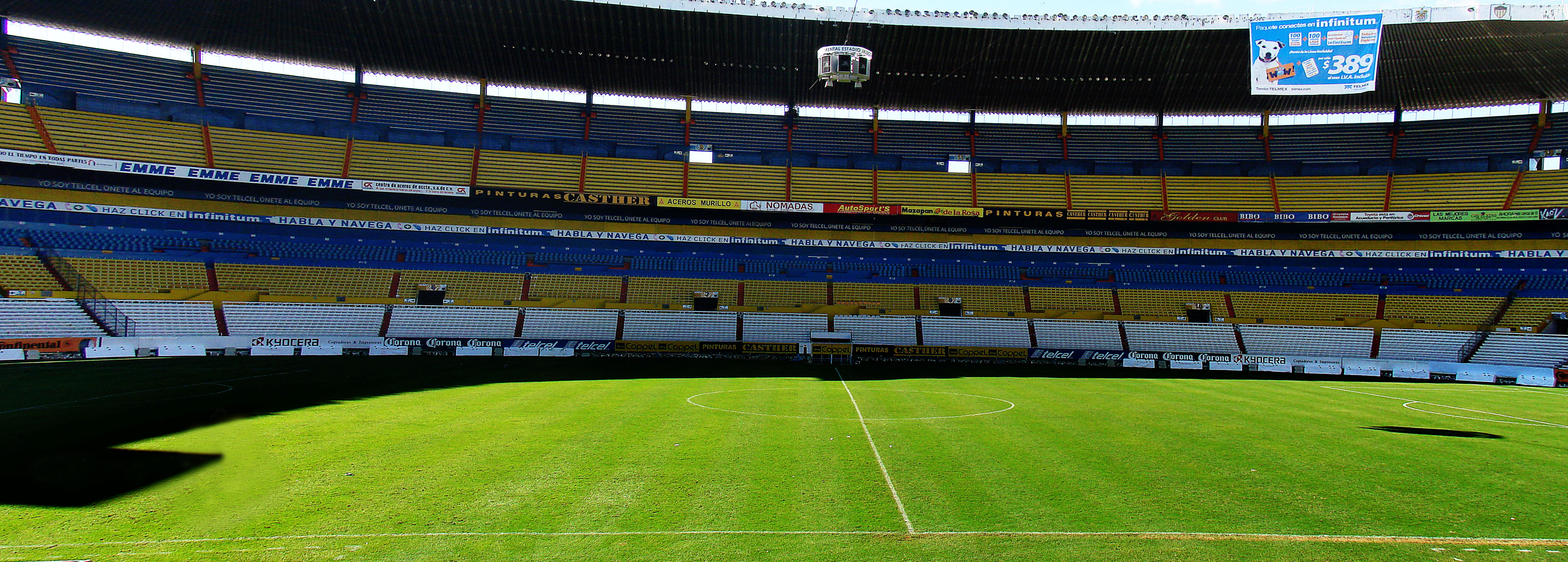 panoramic view of Jalisco Stadium